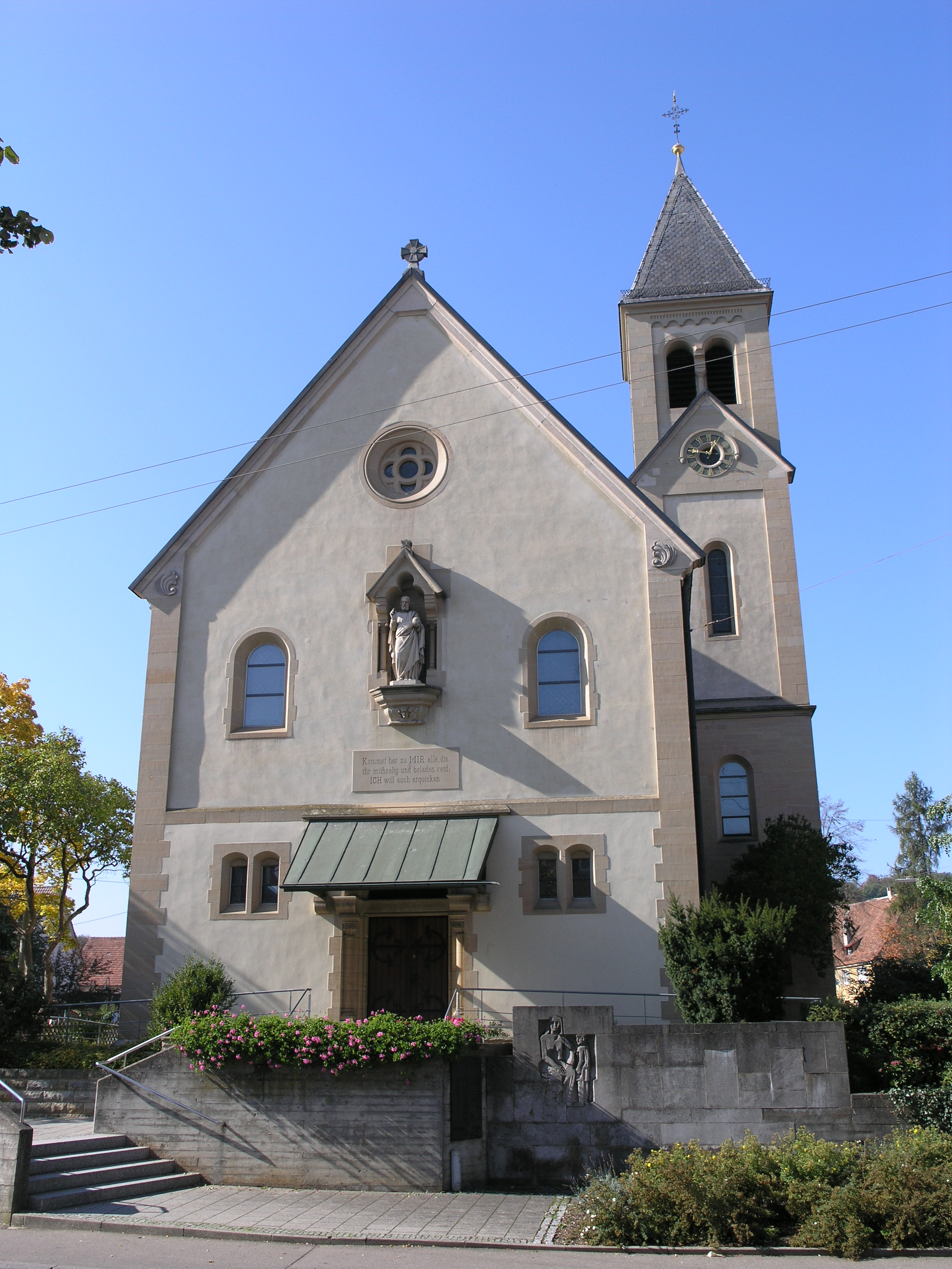 Church of Hagelloch